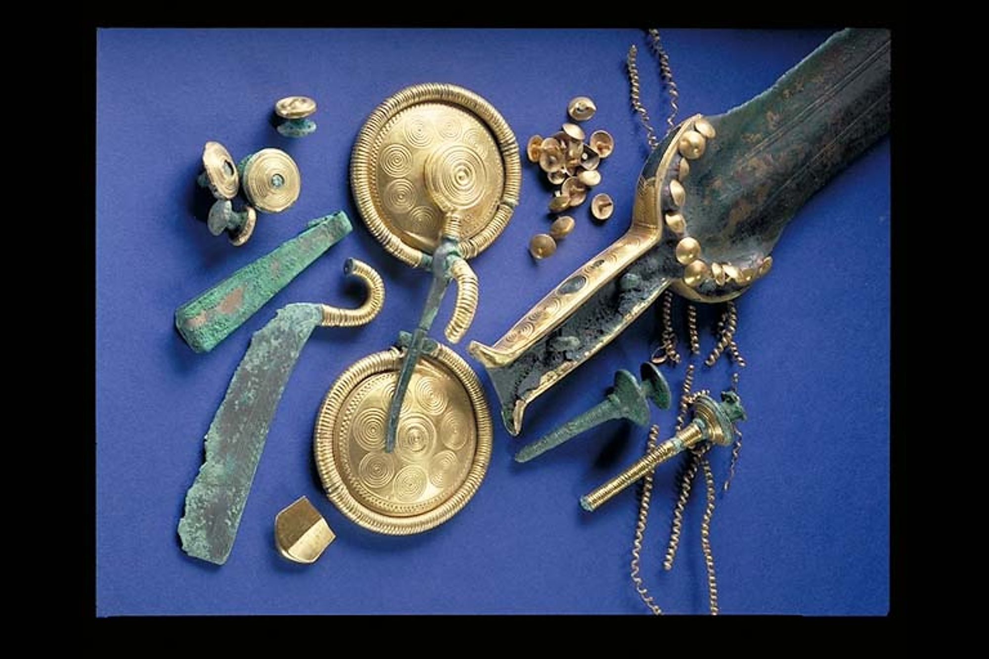 Grave goods from Hågahögen grave mound, fron Statens Historiska Museet